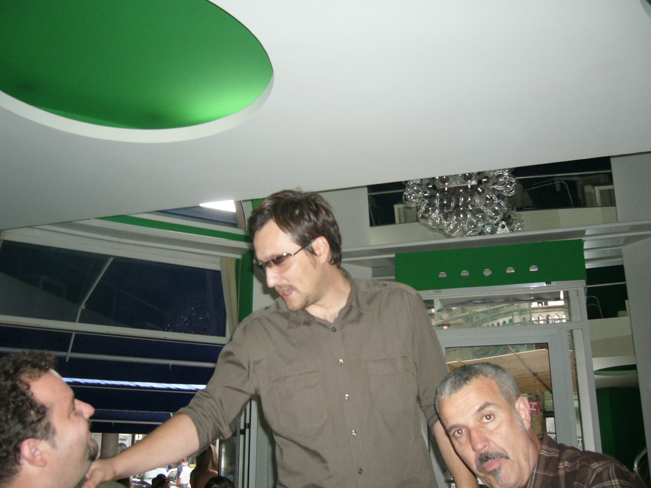 Almir Kurt, Almas Smajlović i Mirza Tanović (2005)